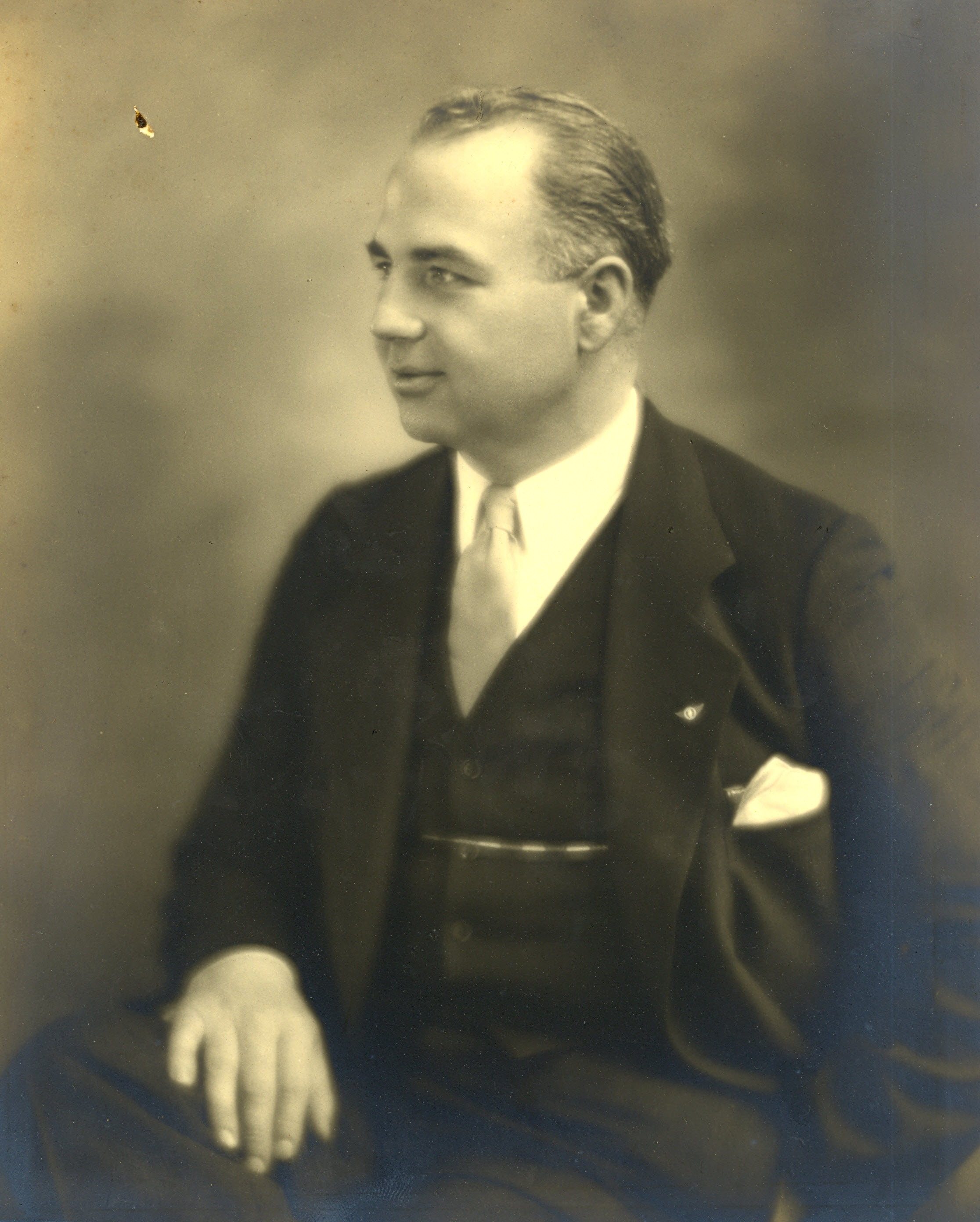 Melvin Maas, member of the United States House of Representatives from Minnesota